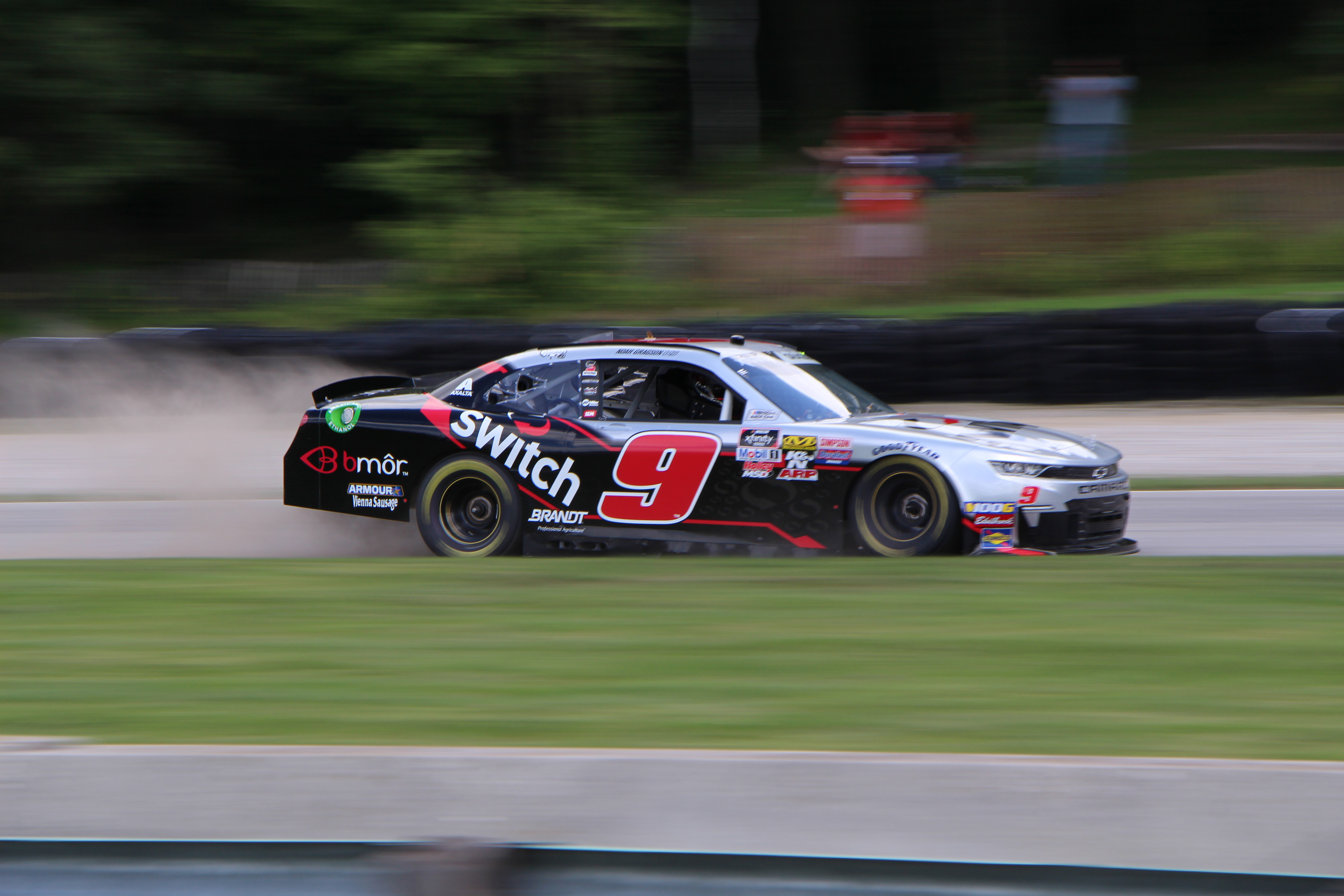 Noah Gragson's No. 9 Switch Chevrolet at Road America in 2019